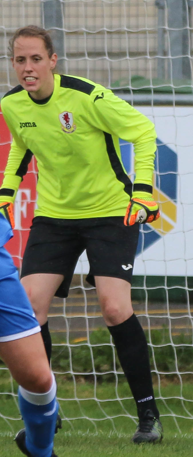 Lewes FC Ladies 1 Cardiff City Ladies 1 28 08 2016-2492.jpg